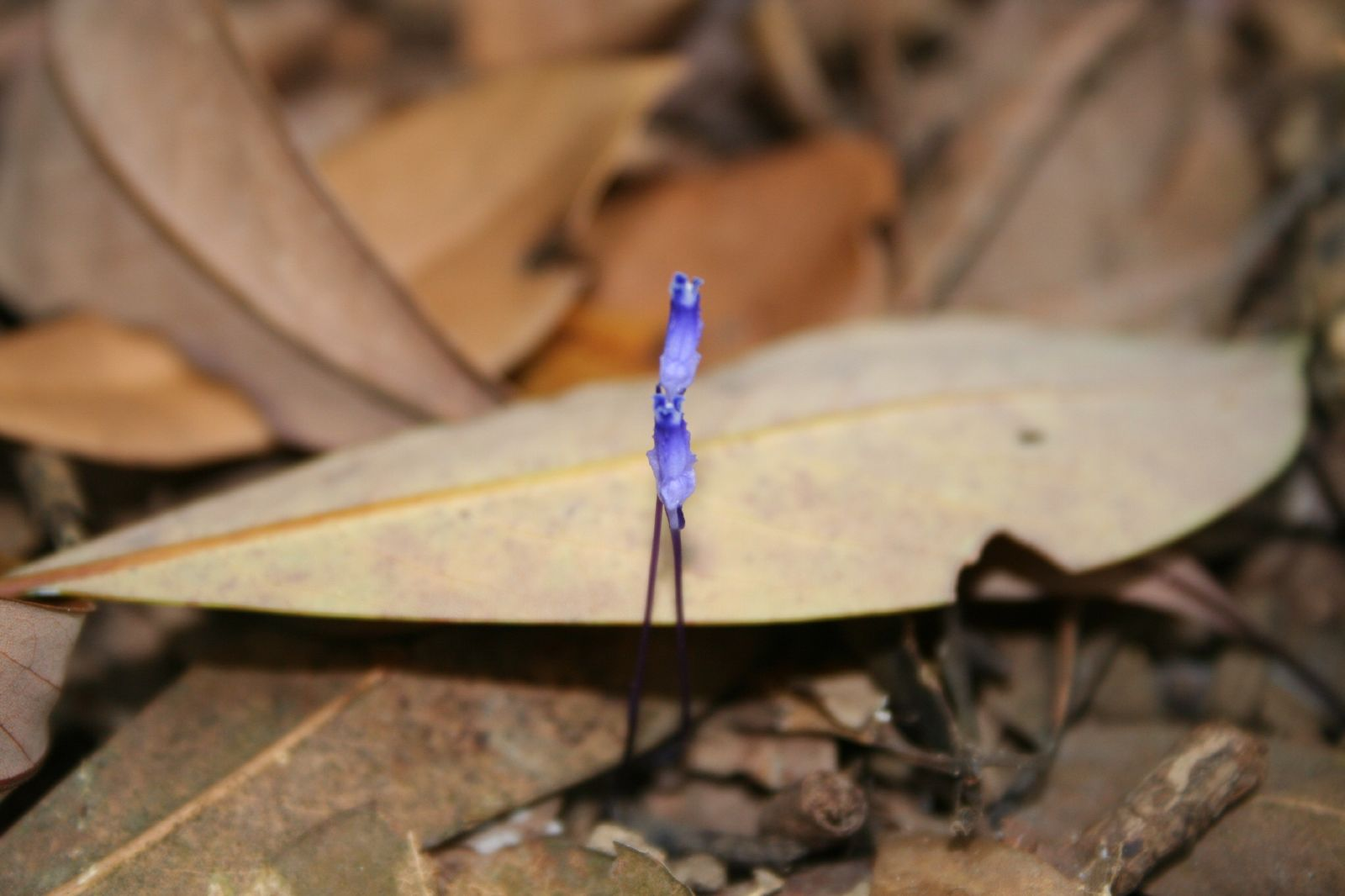 Burmannia wallichii at Taipokau Nature Reserve, Hongkong